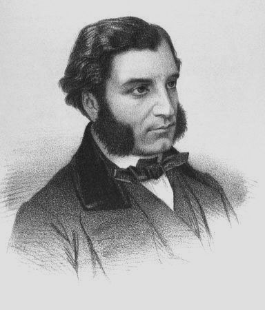 Dimitrios Zampakos-Pasha Place of Birth: Constantinople (1831 - 1913) Place of Death: Cairo. Greek Doctor